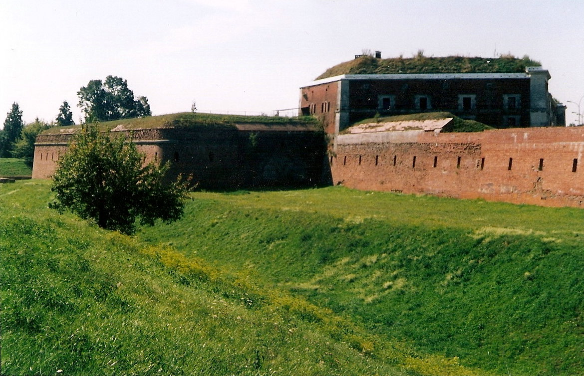 Bastion and cavalier (the fortification overlooking the bastion) on the Fortress of Zamość